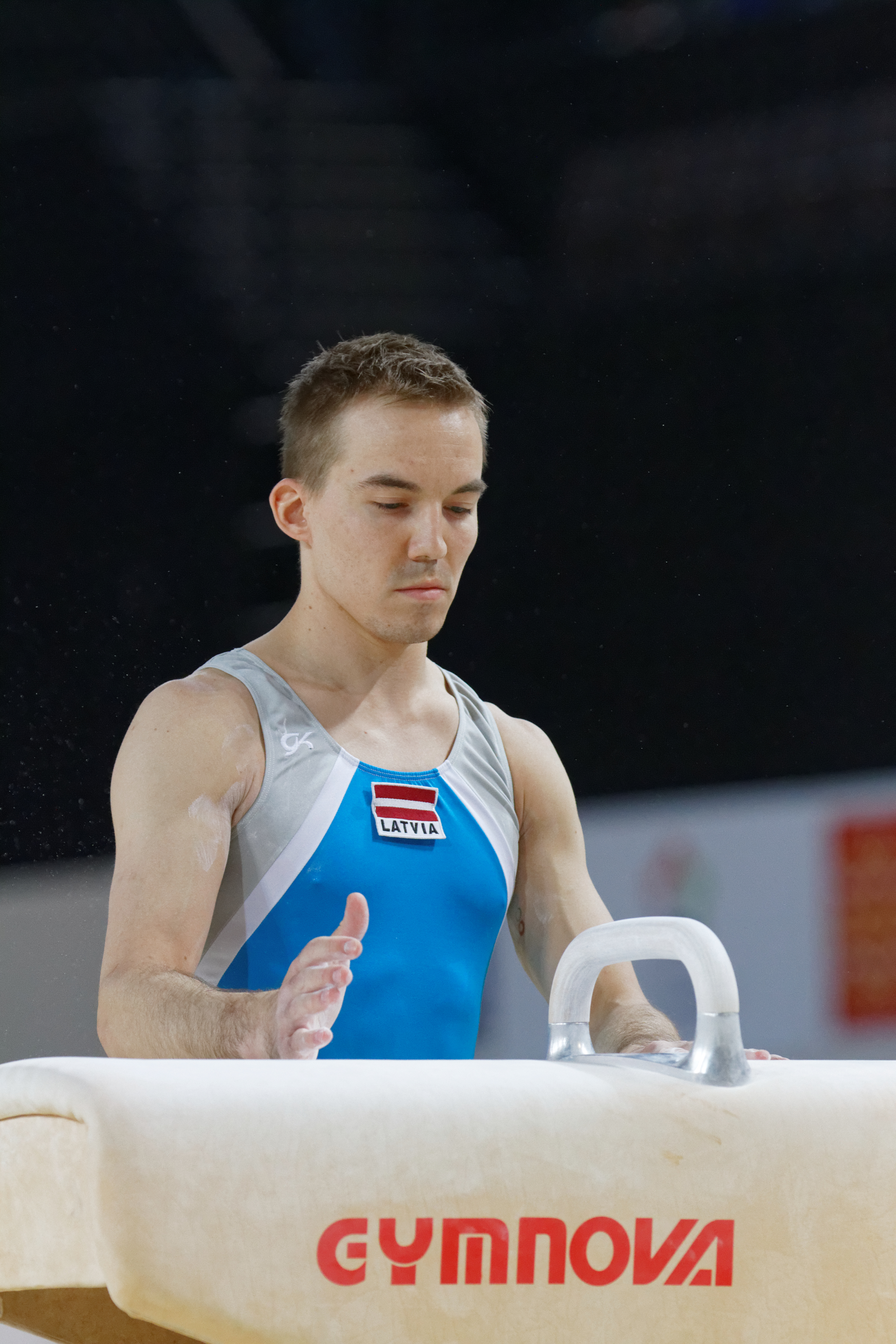 2015 European Artistic Gymnastics Championships. Pommel horse.